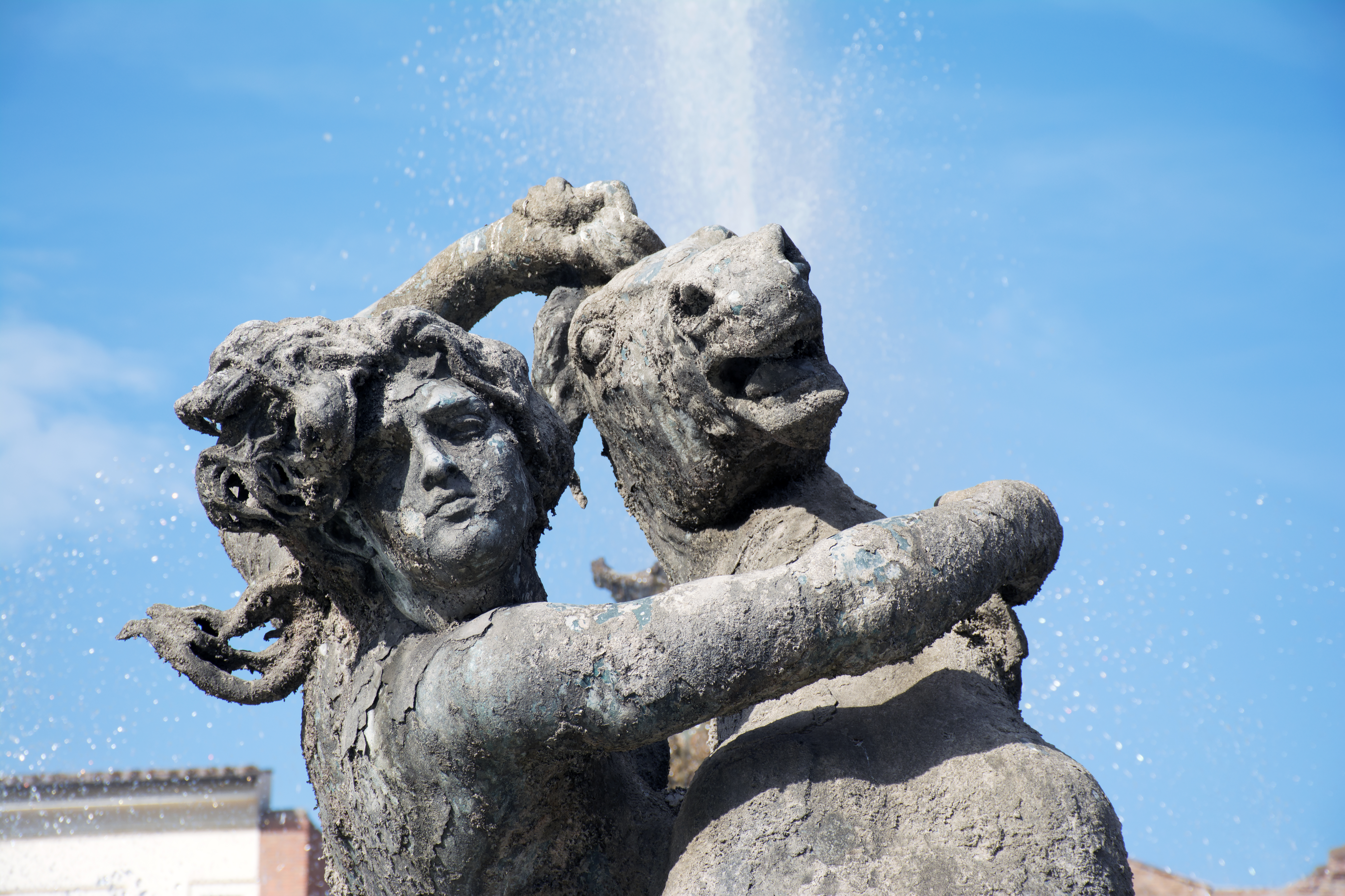 Face of Nymph of the Oceans in Fontana delle Naiadi (Rome)